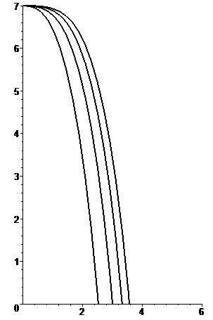 Quasi-parabolic freefall with aerodynamic friction for difererent velocities.